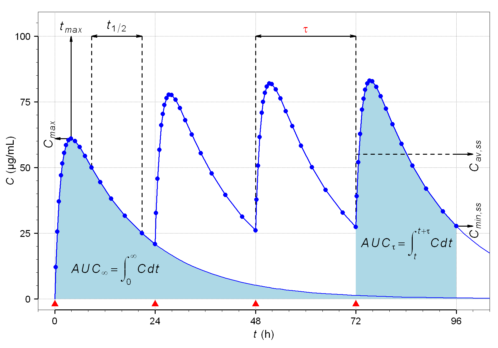 Time course of drug plasma concentrations over 96 hours following oral administrations every 24 hours (τ). Absorption half-life 1 h, elimination half-life 12 h. Note that in steady state and in linear pharmacokinetics AUCτ=AUC∞. Steady state is reached after about 5 × 12 = 60 hours.